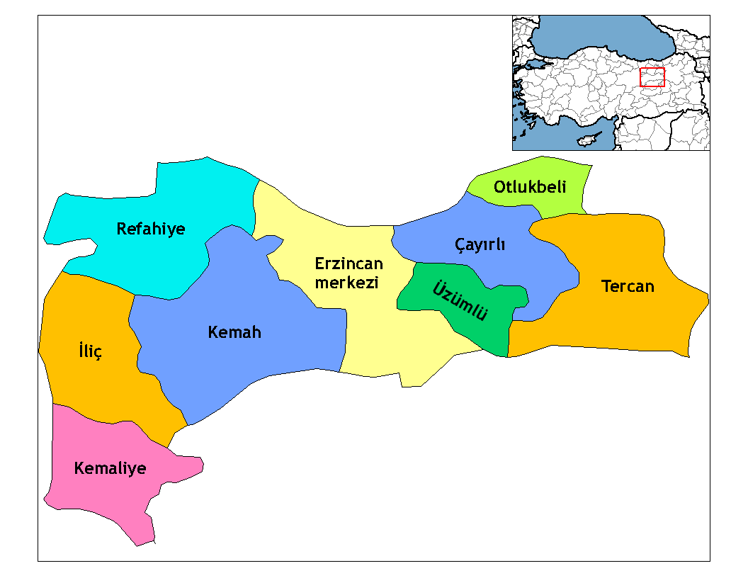 Map of the districts of Erzincan province in Turkey. Created by Rarelibra 19:53, 1 December 2006 (UTC) for public domain use, using MapInfo Professional v8.5 and various mapping resources. Edited by One Homo Sapiens Corrected text where İ,Ş,ı,ğ,or ş occurs in name. Source: [statoids-com]. Increased font size and enhanced color differences among adjacent districts.ömer demir ve kadır demir